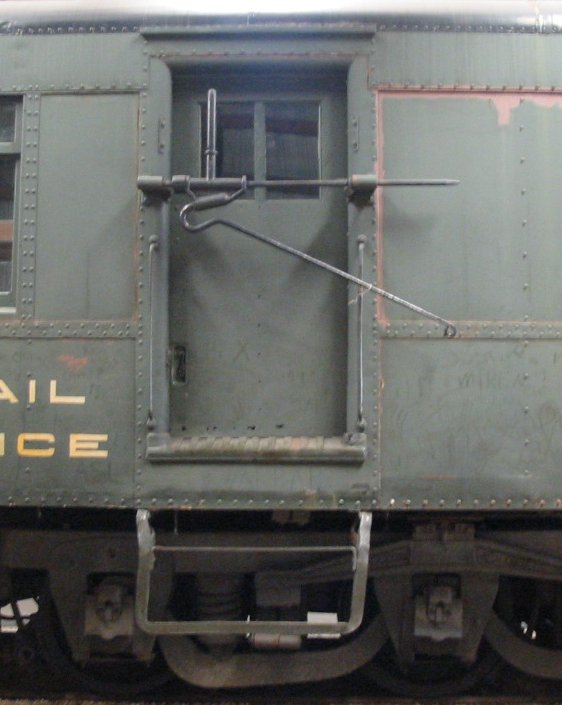 Detail view of the mail hook on CBQ 1926, a RPO preserved at the Illinois Railway Museum.